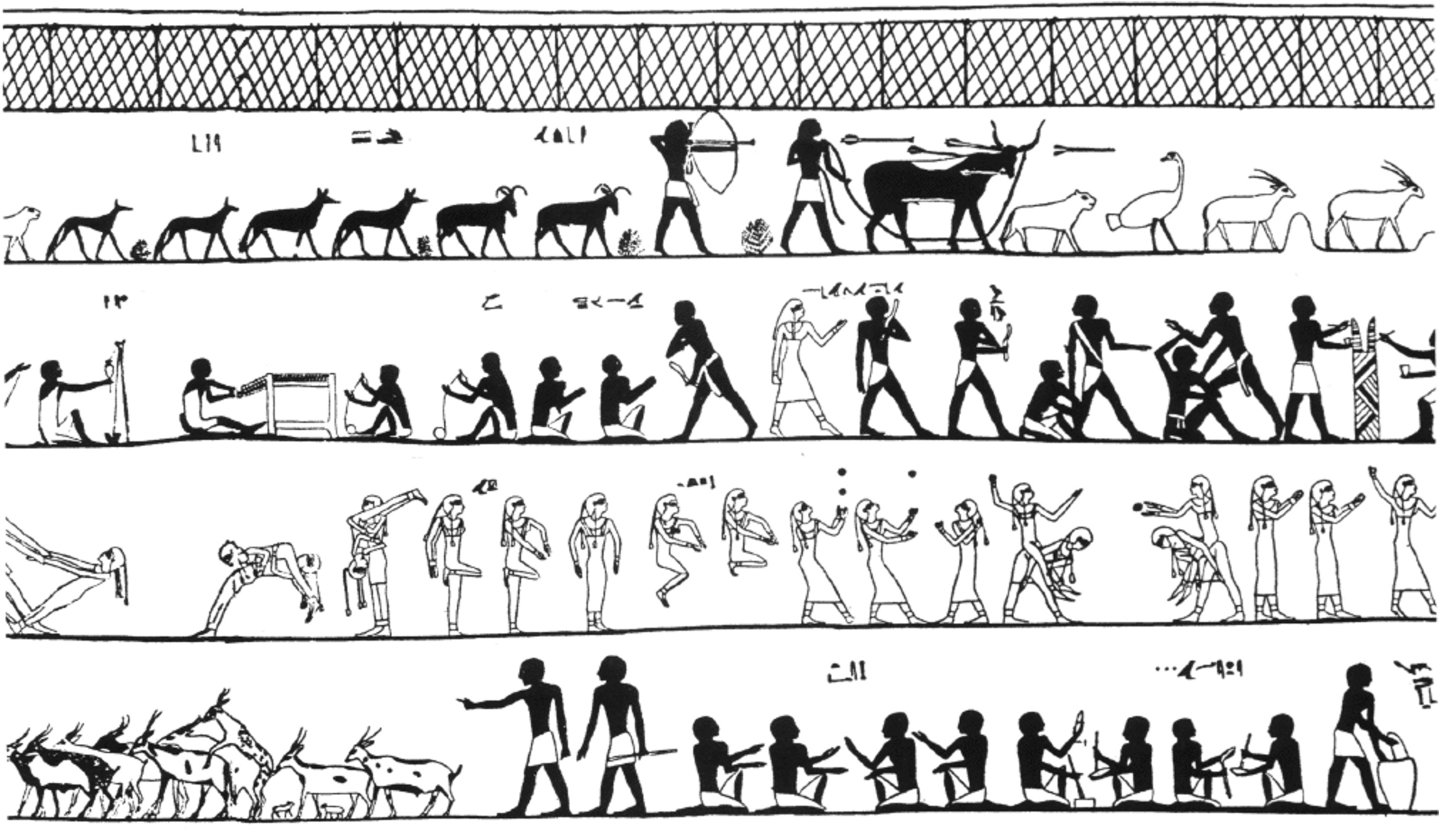 Ancient Egyptian picture of jugglers, seen in the third row